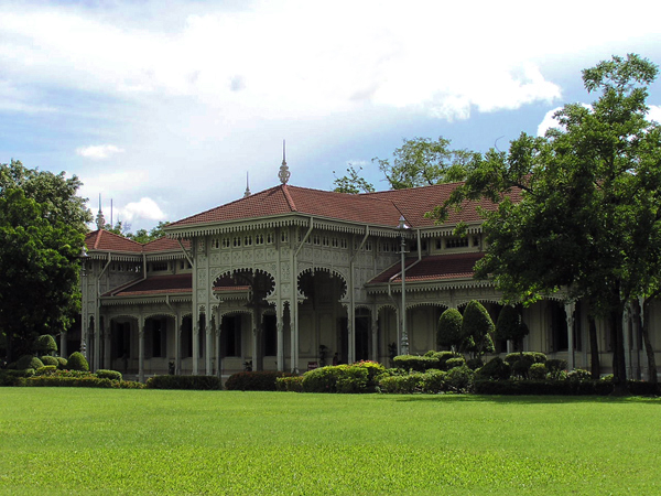 Abhisek Dusit Throne Hall, Dusit Palace, Bangkok, Thailand